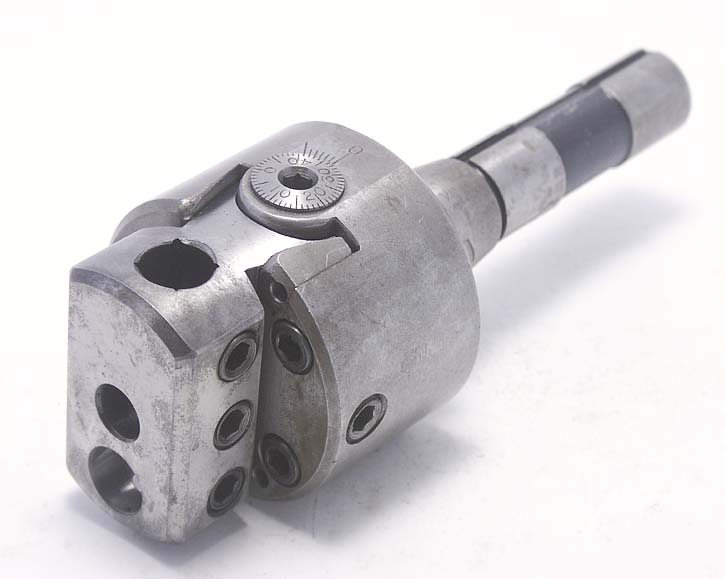 Boring Head on R8 Shank.